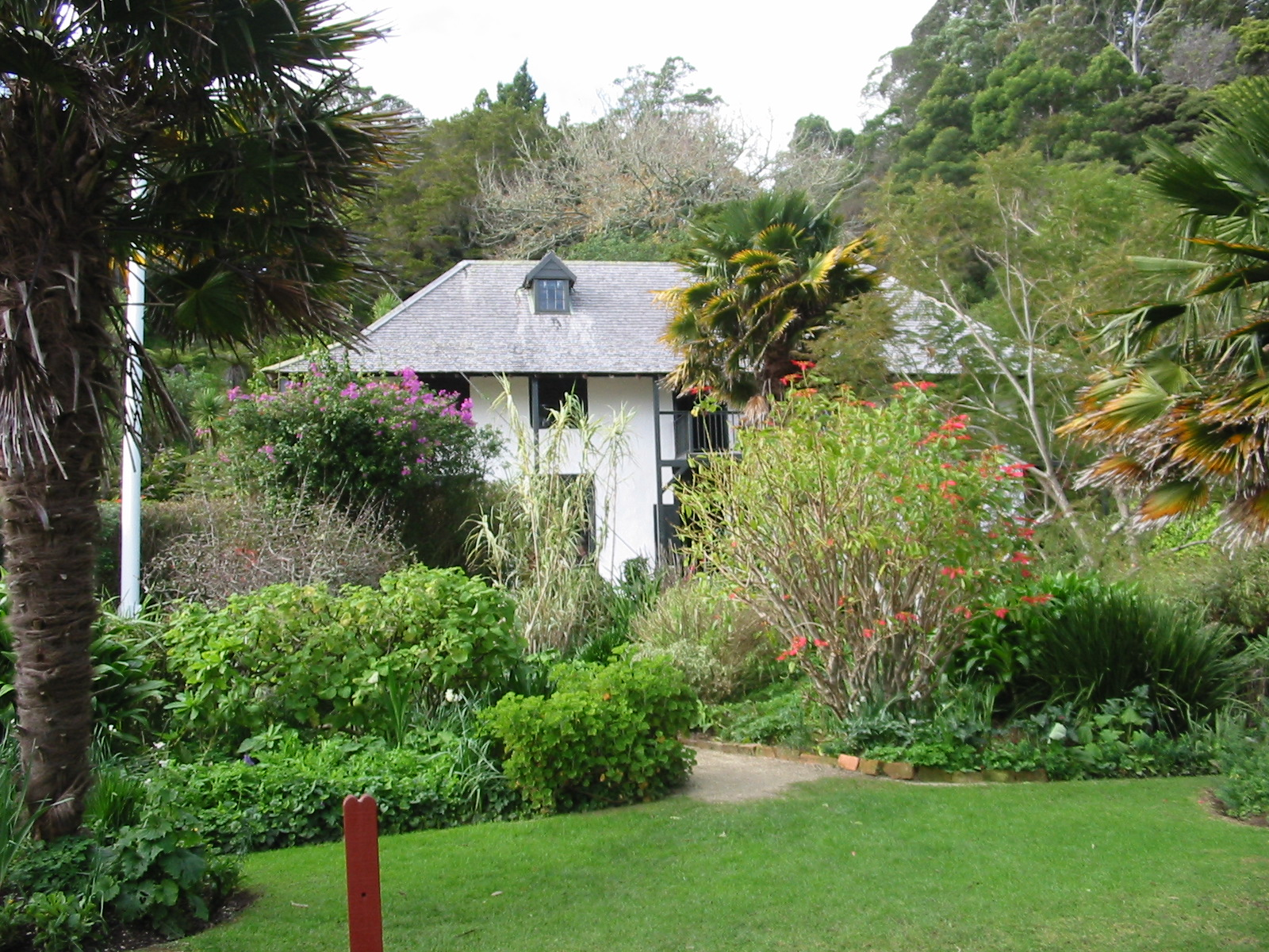 View of Pompallier House, Russell, New Zealand. New Zealand Historic Places Trust Register number: 4.